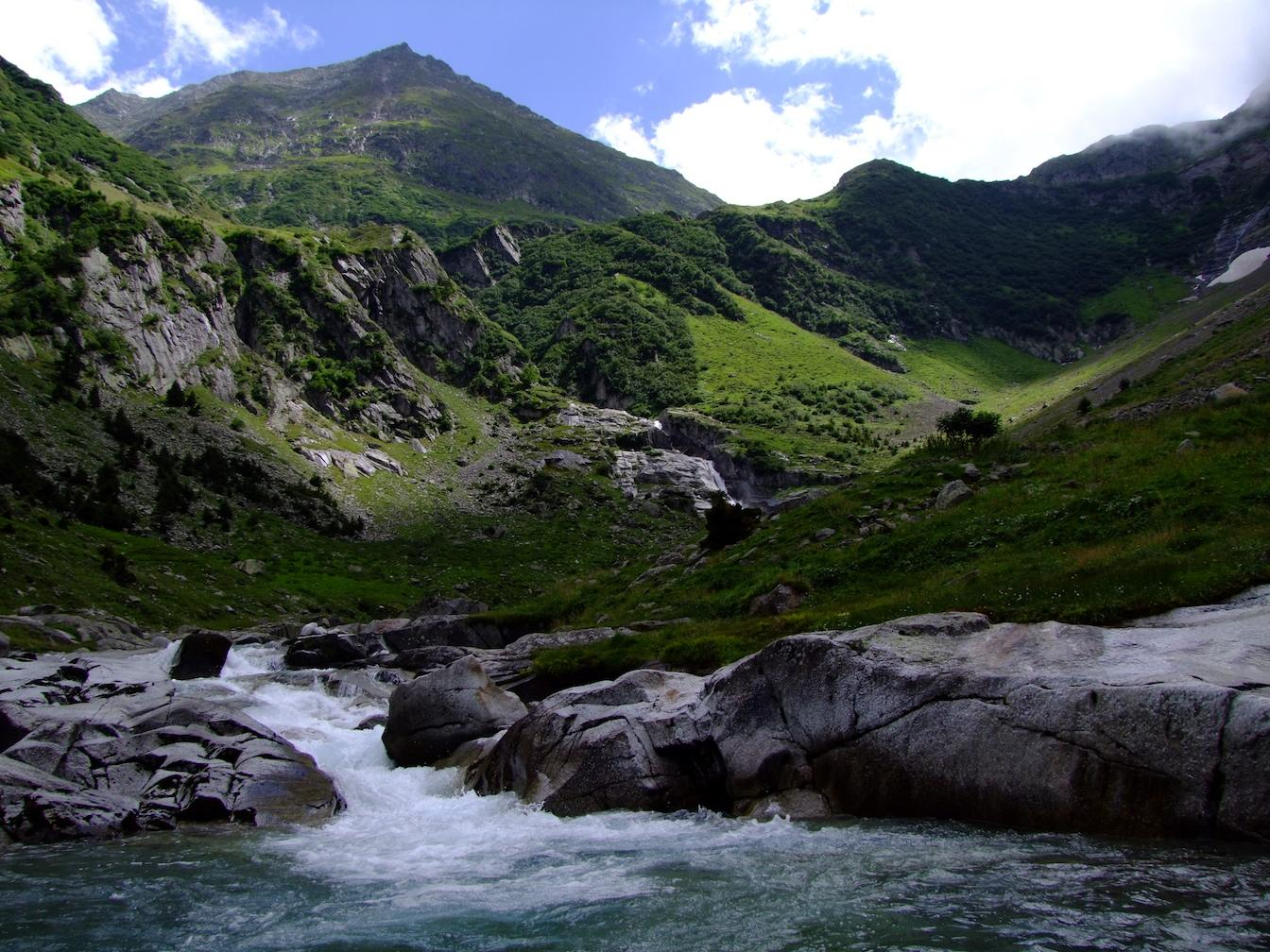 Val Sumvitg, Graubünden